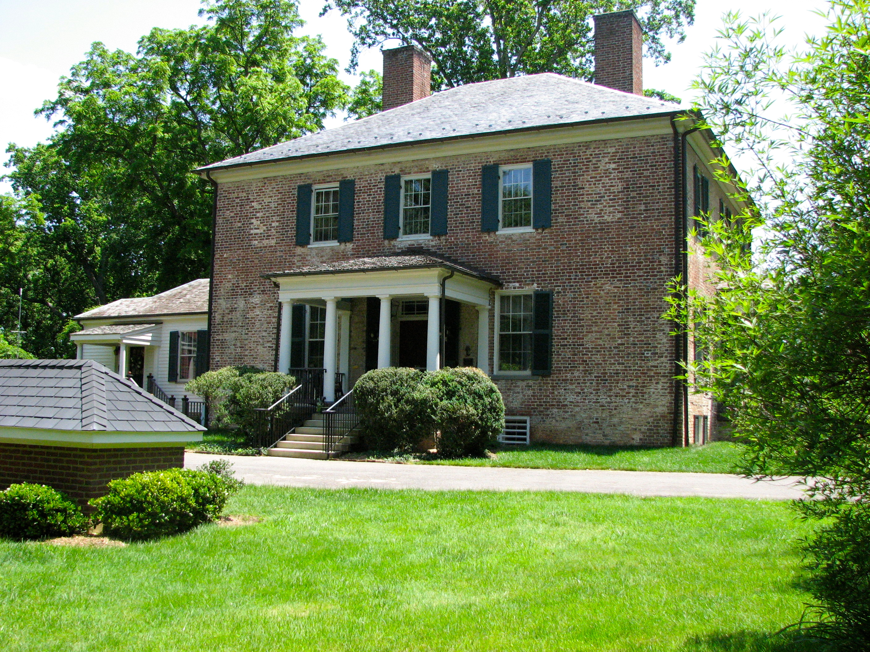 Listed on the National Register of Historic Places in Spotsylvania County, Virginia